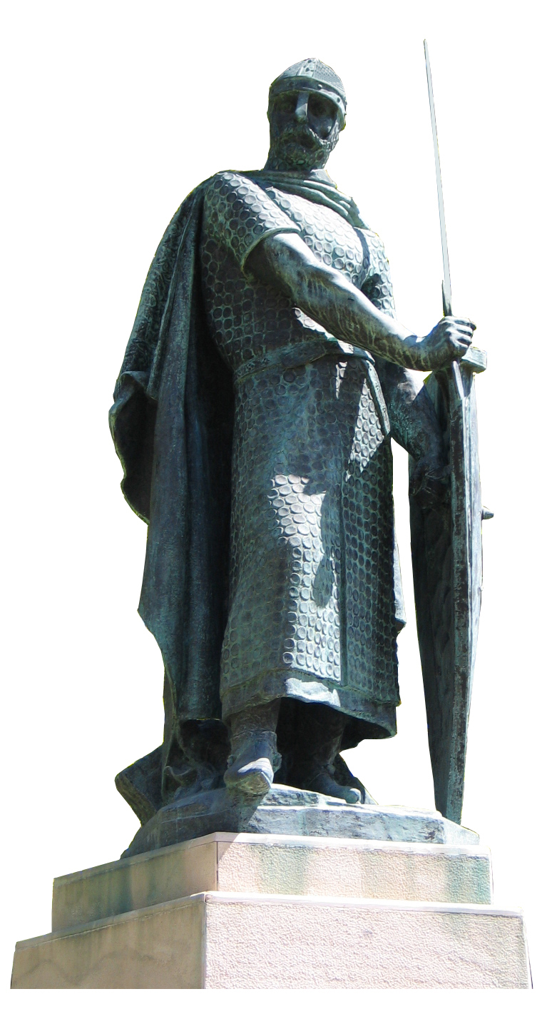 Statue of King Afonso I (1143-1185) in Porta do Sol, in Santarén, Portugal.